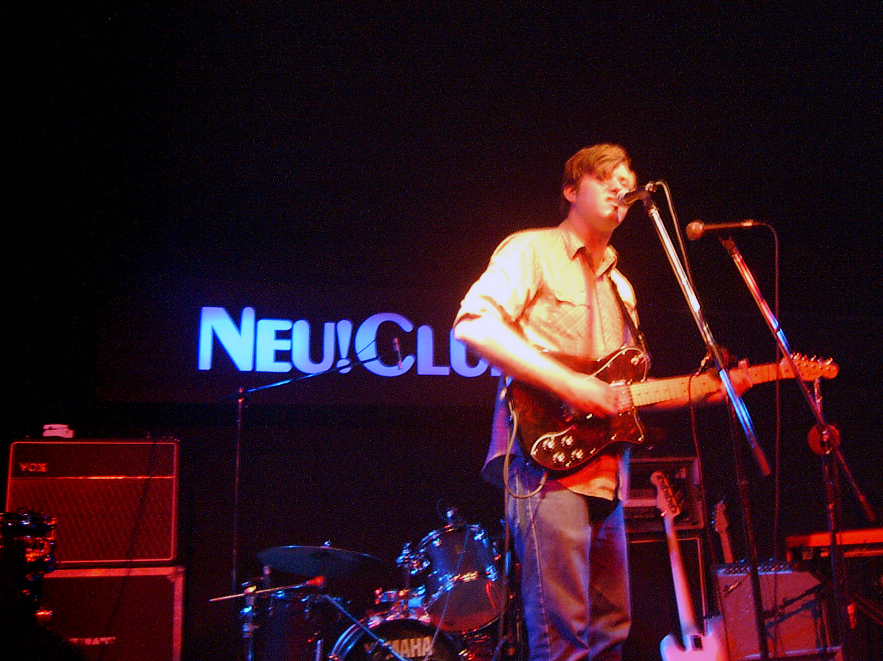 The image is of musician Chris Bathgate performing at Neu! Club in Madrid, Spain.